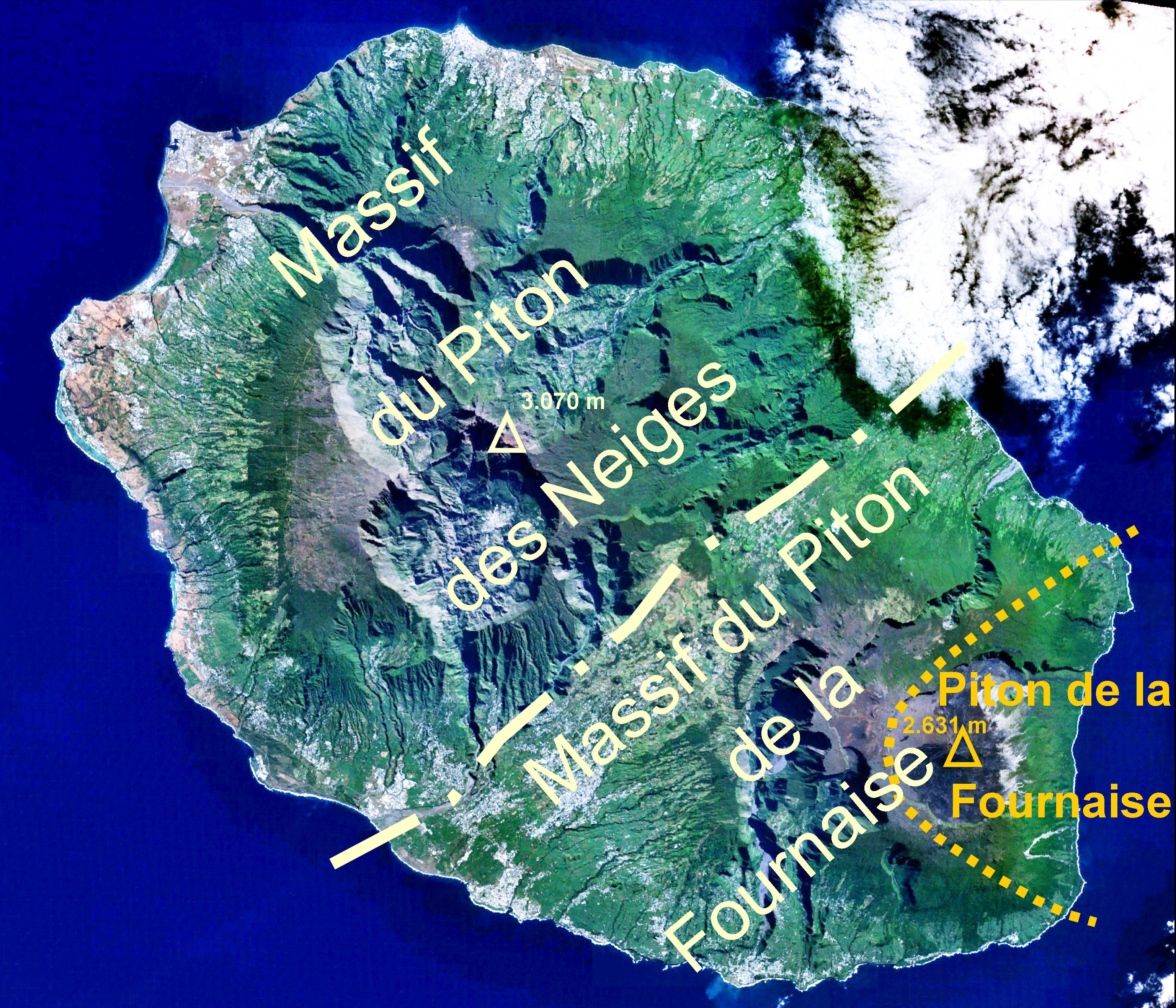 location of the Piton de la Fournaise on a satellite view of Réunion island